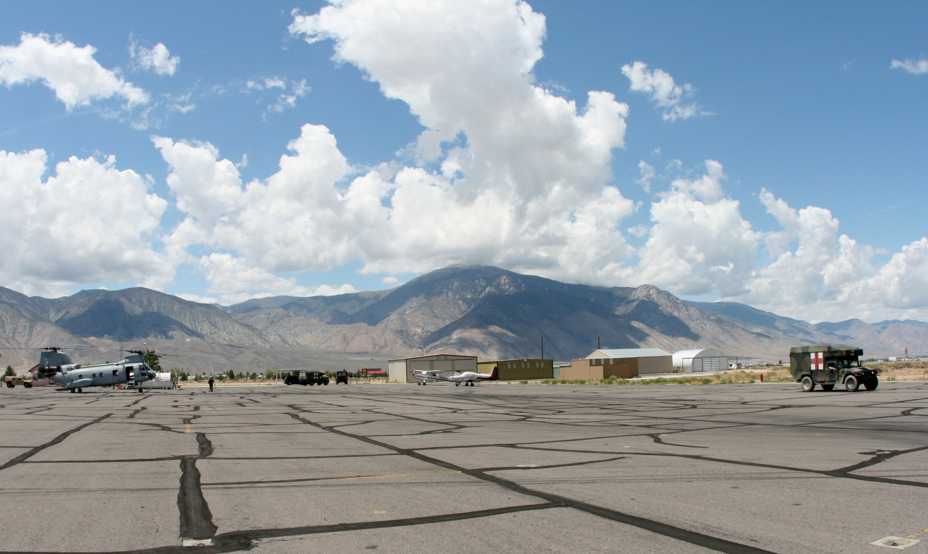 A military ambulance from 4th Medical Battalion, 4th Marine Logistics Group, carries simulated casualties from CH-46 helicopters to a KC-130 airplane for evacuation to a notional hospital during a casualty evacuation exercise at Hawthorne Army Depot, Nev. June 17. The casualty evacuation drill was part of Javelin Thrust 2009, an exercise involving more than 2,600 active duty and Reserve Marines designed to prepare them for deployment in support of overseas contingency operations, especially those in the US Central Command’s geographical area of responsibility, which includes Iraq and Afghanistan.